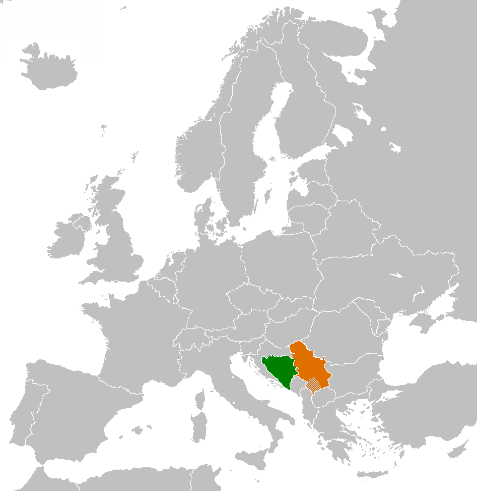 Location of Bosnia and Herzegovina marked green, Serbia marked orange and Kosovo the same grey as the rest of Europe.